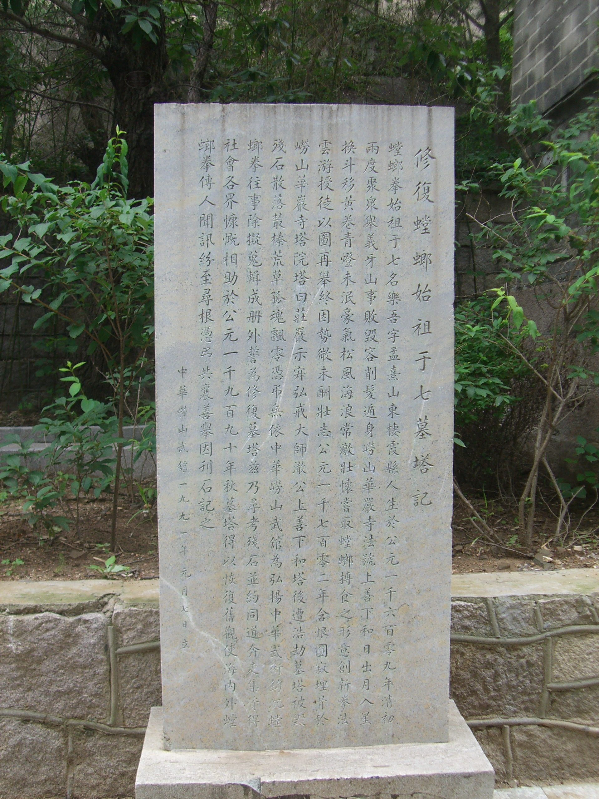 Memorial for the Restoration of Tang Lang by the 7th Generation Ancestors